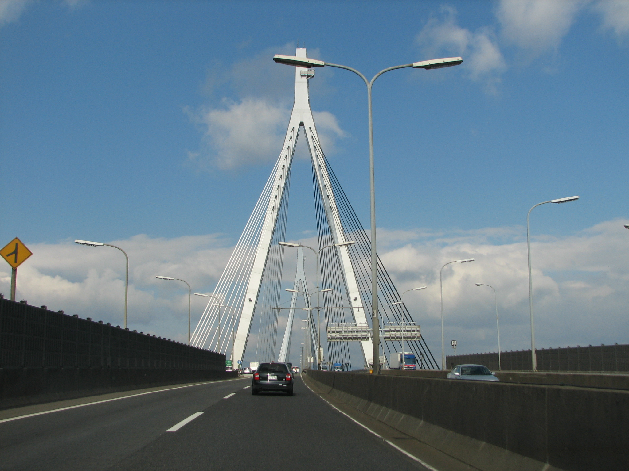 TempozanBridge in Osaka (From Hanshin Expressway)